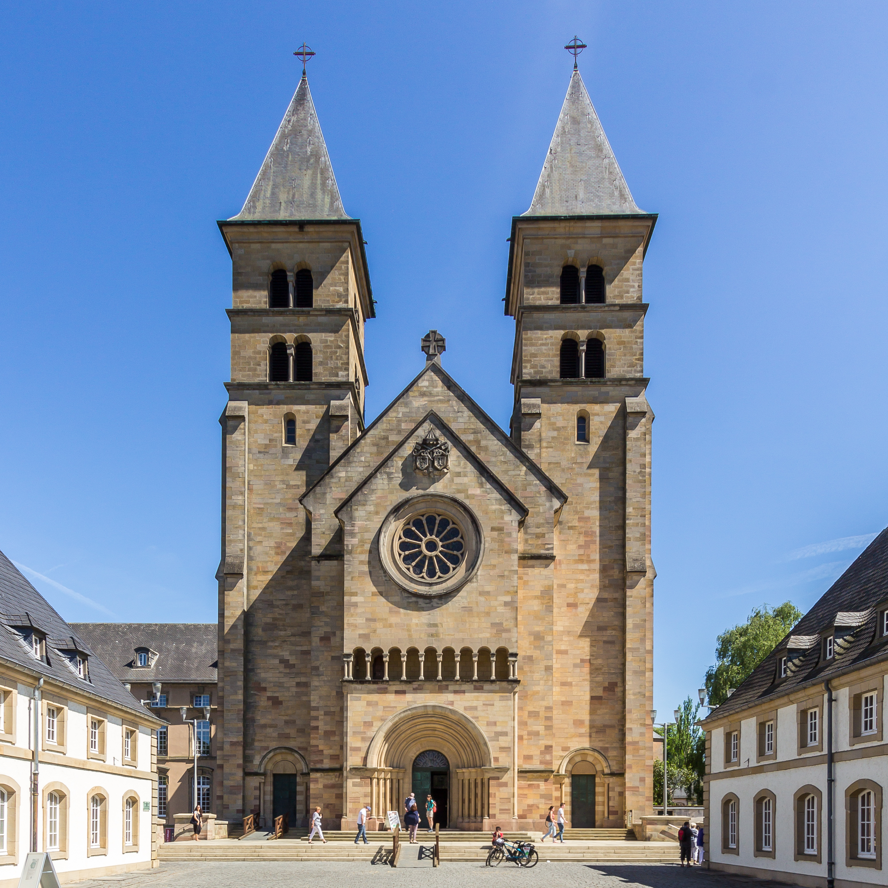 St. Willibrord Basilika, Echternach